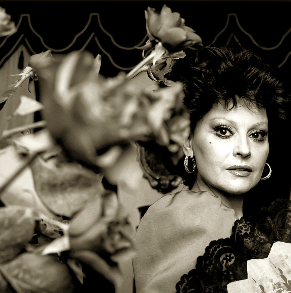 Angela Luce portrait